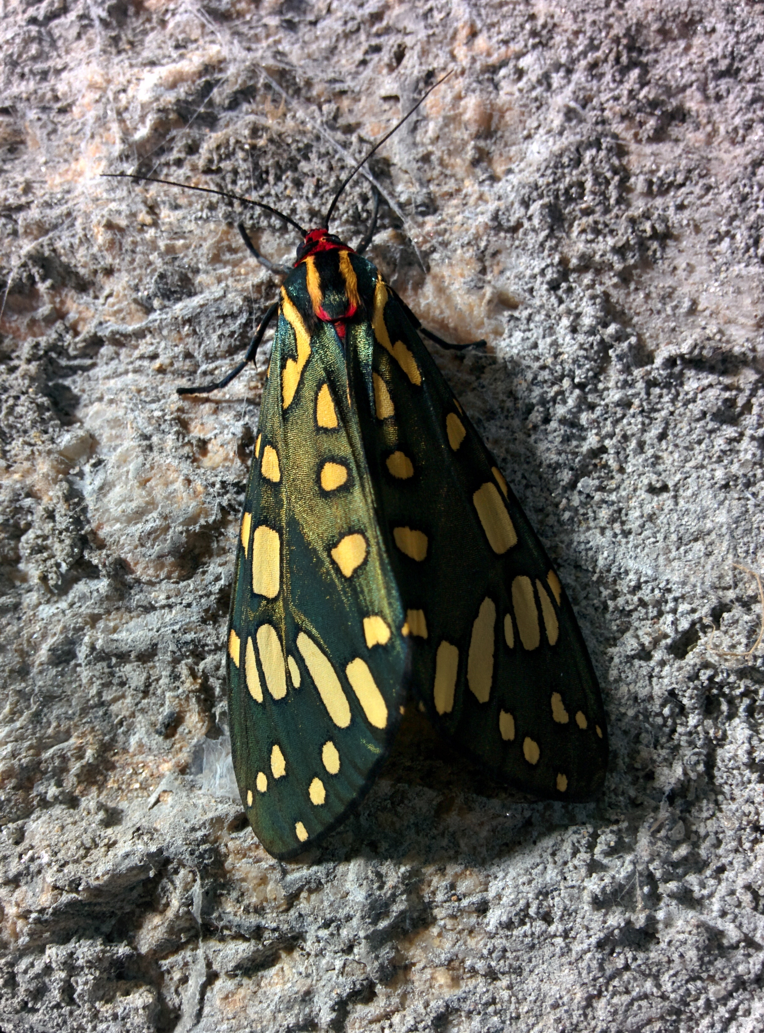 A Callindra principalis moth seen in Sarmoli Village, at an elevation of 2200 metres above sea level.